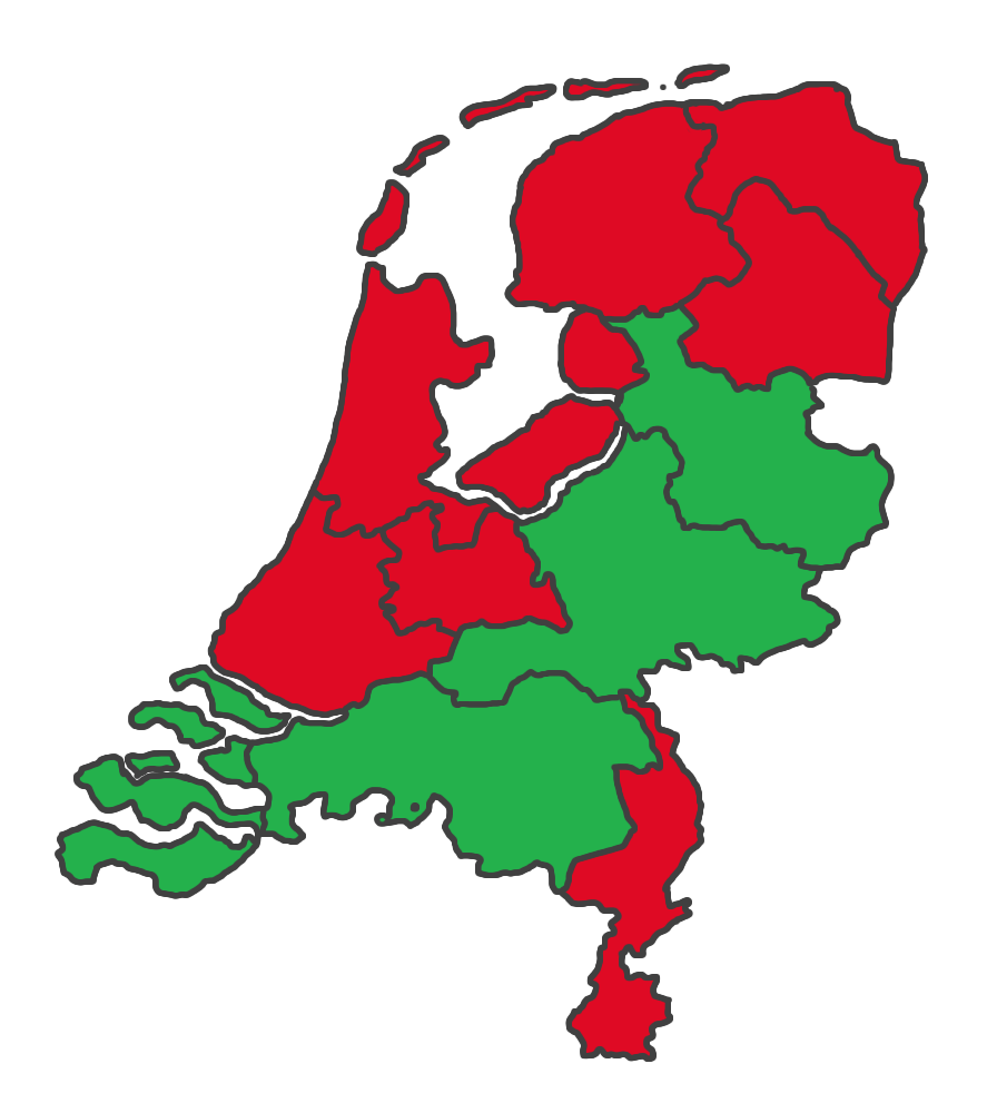 The Map shows how each Province in the Netherlands voted. Green= Yes vote Red= No vote